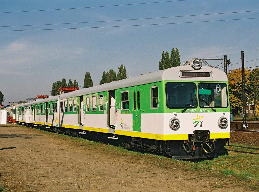 EN57-1920 of Koleje Mazowieckie; TRAKO trade fair, Gdańsk, Poland